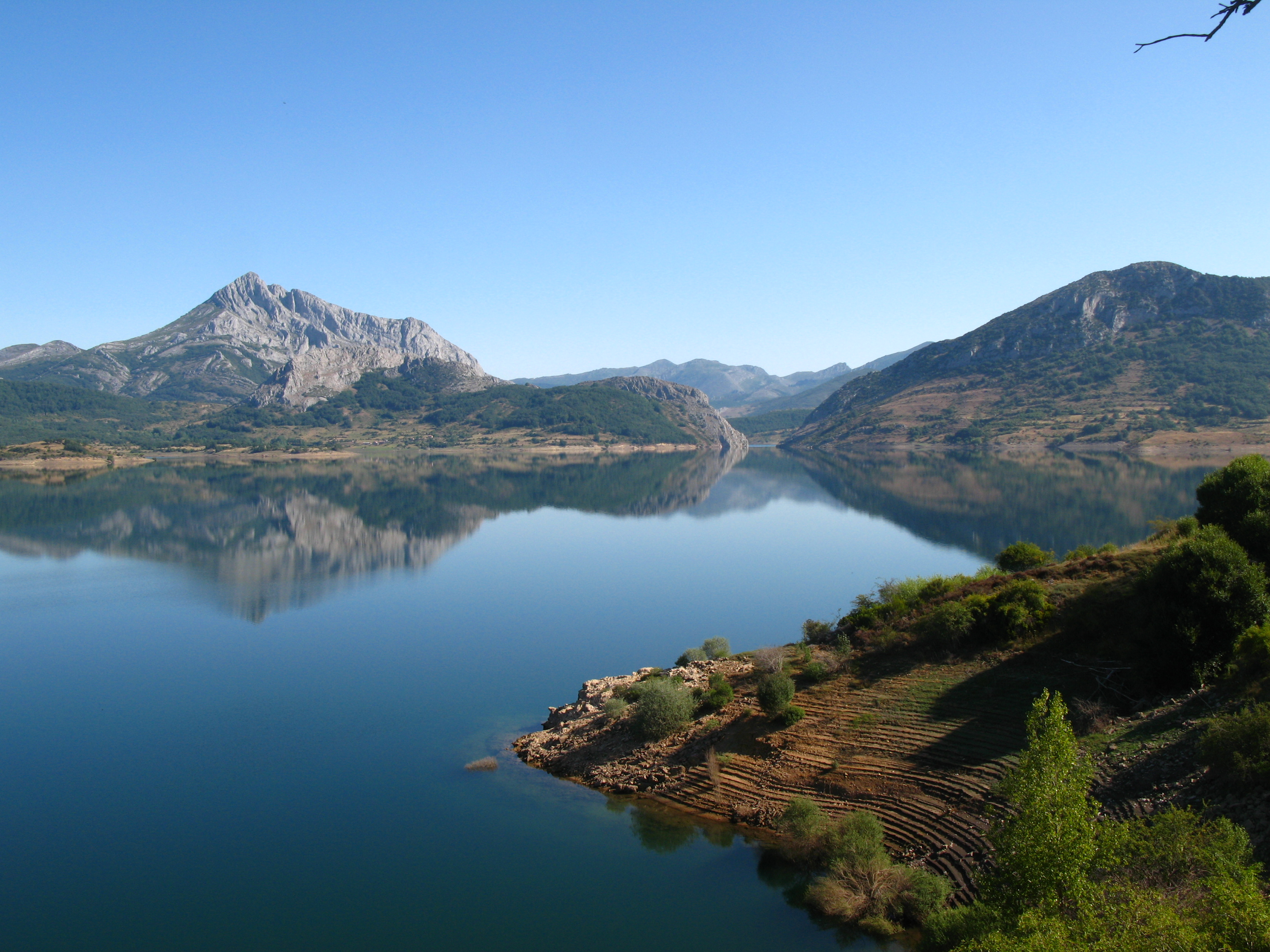 This is a photography of a Special Area of Conservation in Spain with the ID: ES1200008. Natura2000 entry, EEA entry